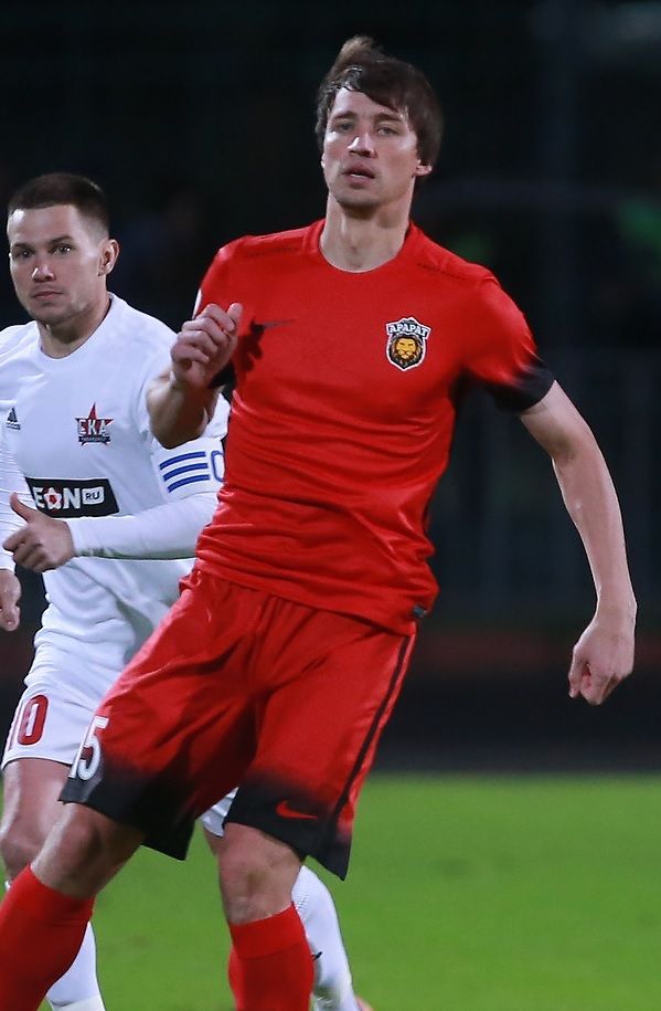 Yegor Tarakanov with FC Ararat Moscow in a Russian Cup game against FC SKA-Khabarovsk.